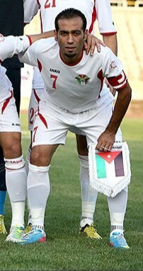 Amer Theeb before football match between Jordan national football team and Syria national football team in Shahid Dastgerdi Stadium, Tehran (neutral field). 2015 AFC Asian Cup qualification.